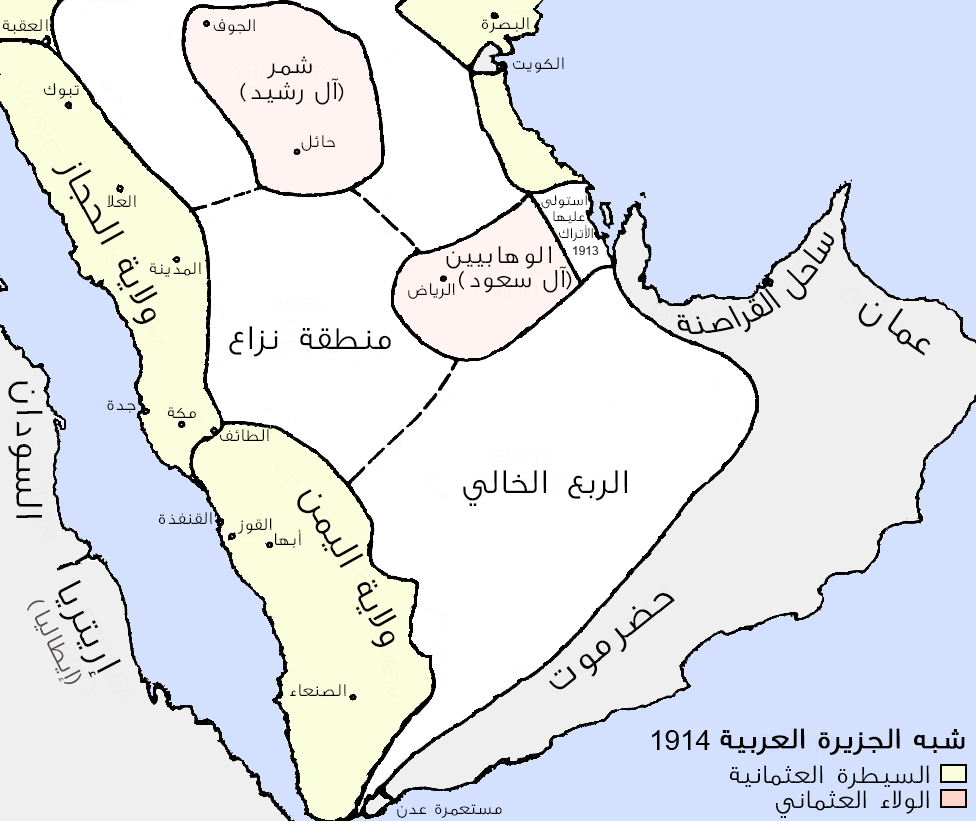 Political borders of the Arabian Peninsula in 1914.